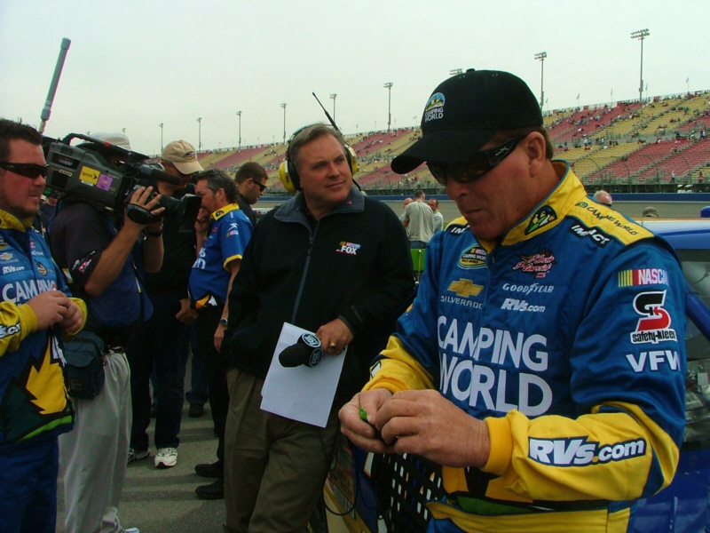 Ron Hornaday at Auto Club Speedway (Fontana, Ca)